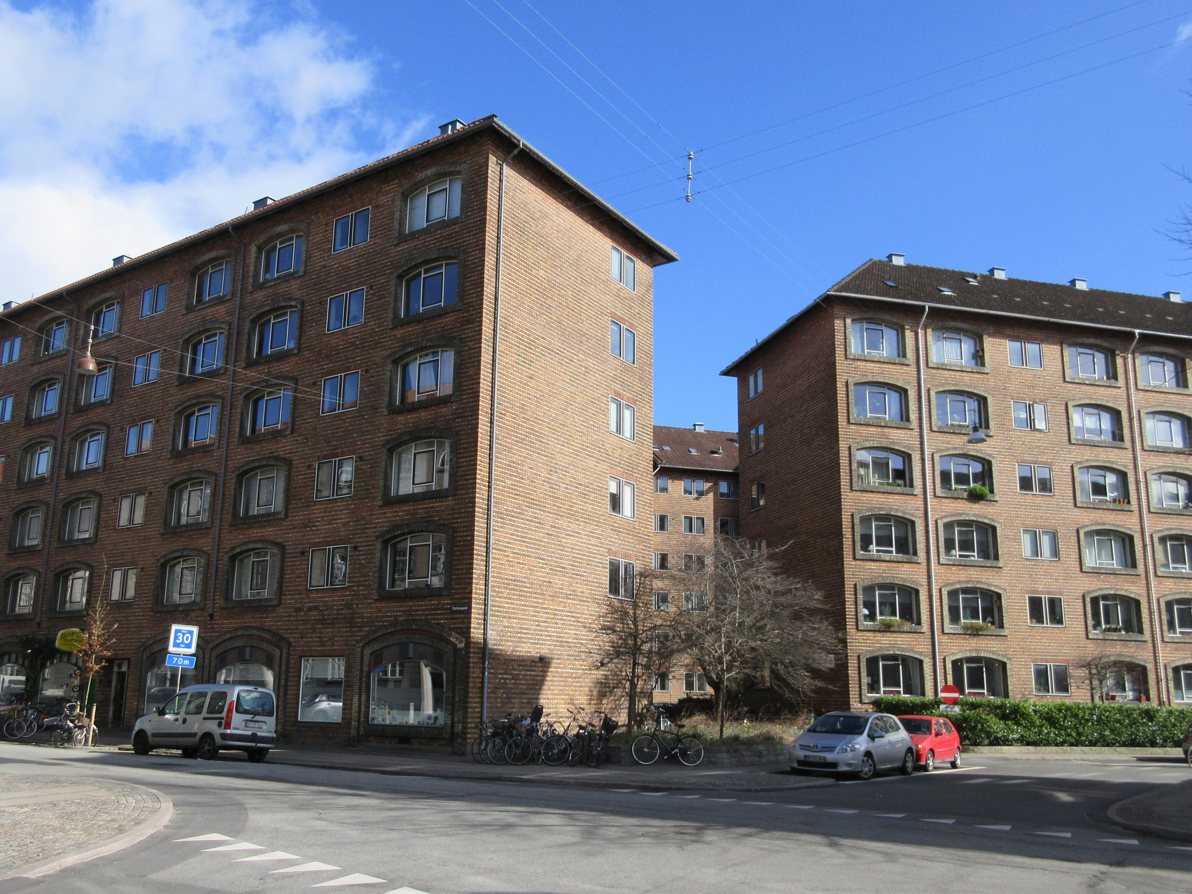 Stefansgård at the corner of Stefansgade and Humlebækgade in Copenhagen, Denmark